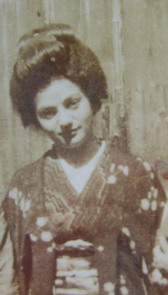 Young Giuliana Stramigioli wearing a kimono, 1937